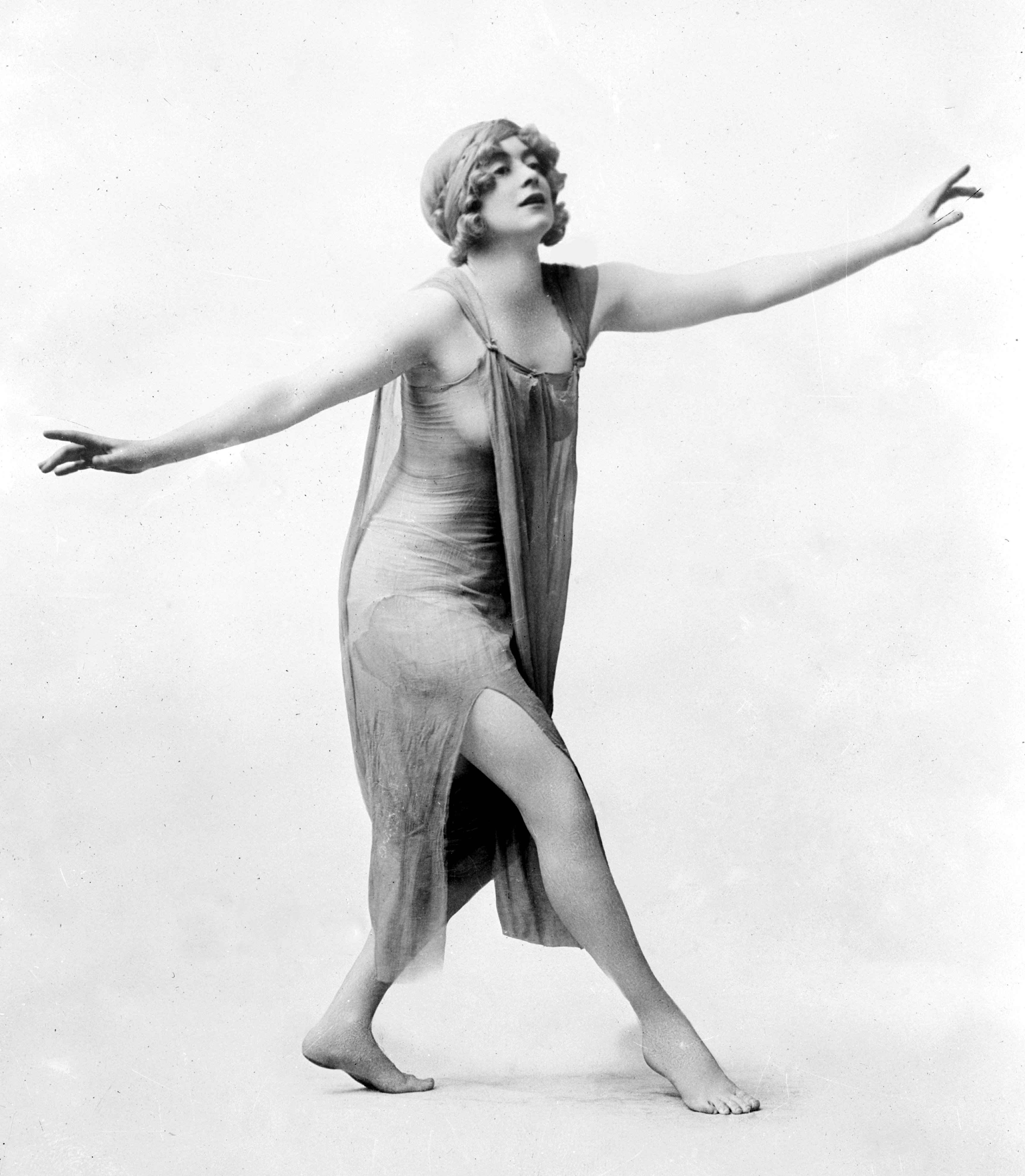 Lady Constance Stewart Richardson (1883-1932), dancer